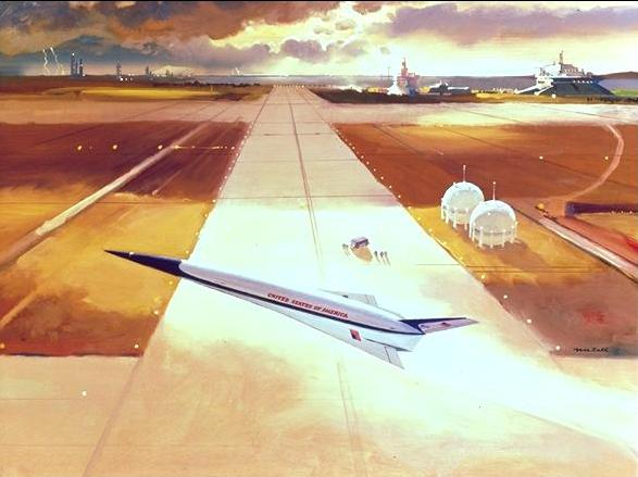 National AeroSpace Plane (NASP) shown landing.